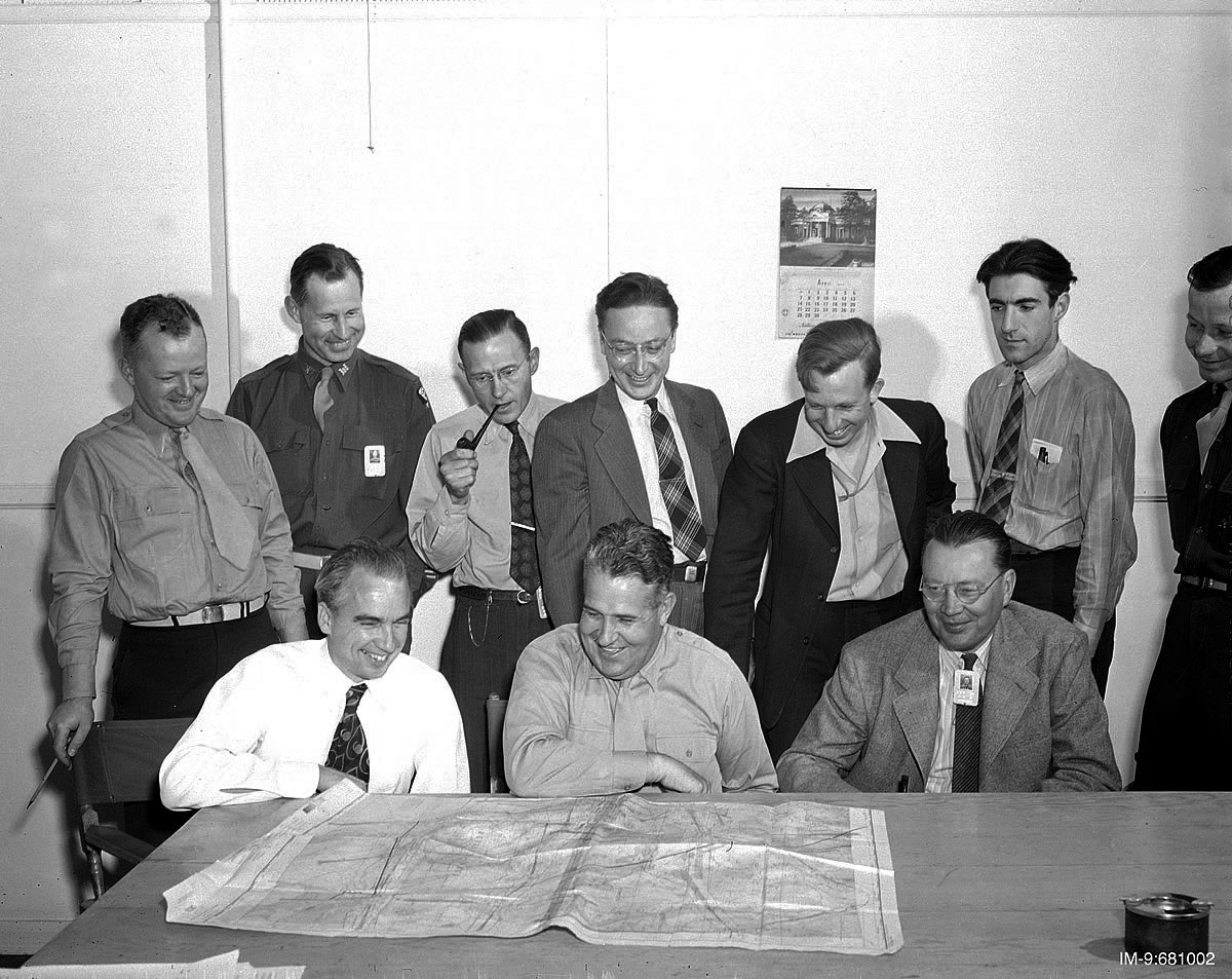 A photo of (seated, left to right) Norris Bradbury, Leslie Groves, and Eric Jette as well as others looking over a map. Colonel Lyle E. Seeman stands behind Bradbury, second from left; Colonel E. E. Wilhoyt stands at right